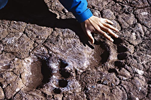 Polar Bear tracks, at Liefdefjord, Spitsbergen, July 2002, by Michael Haferkamp